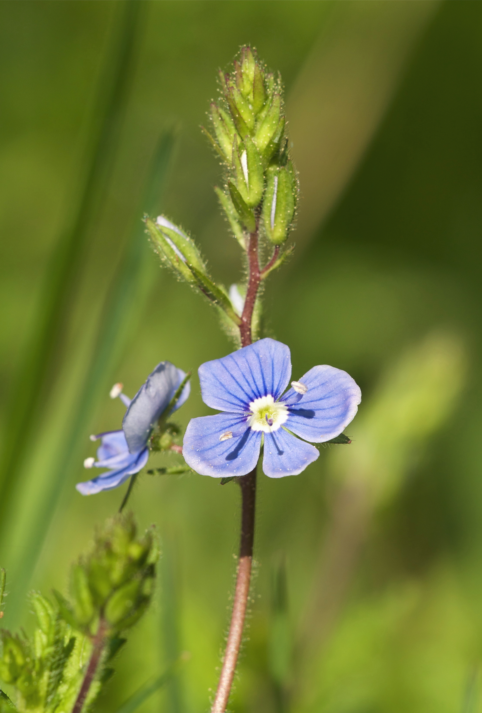 Germander Speedwell (Veronica chamaedrys), Chemnitz, Germany